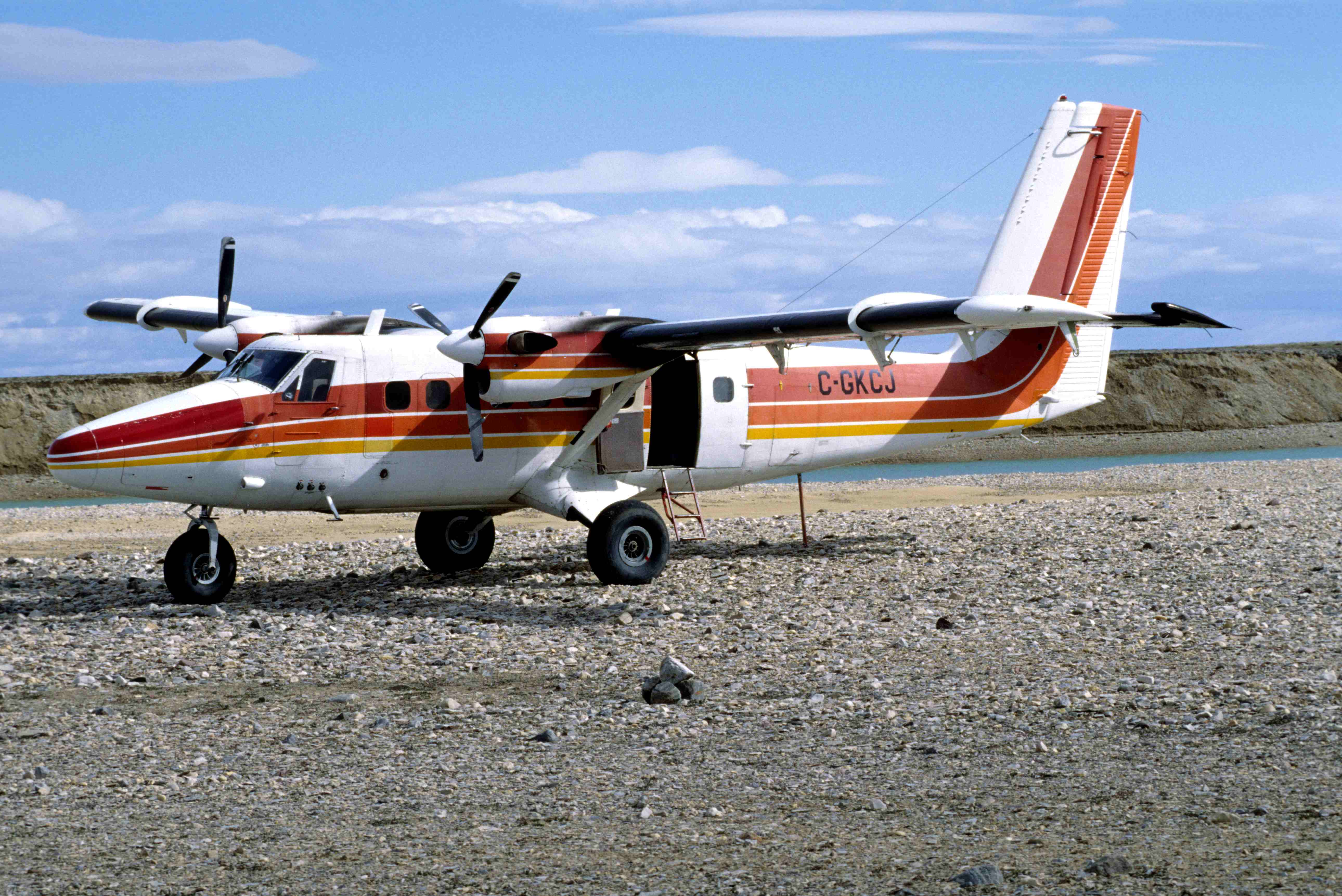 De Havilland Canada DHC-6 “Twin Otter” (C-GKCJ) landed off strip at Bernier Bay, Brodeur Peninsula (Baffin Island, Nunavut, Canada)